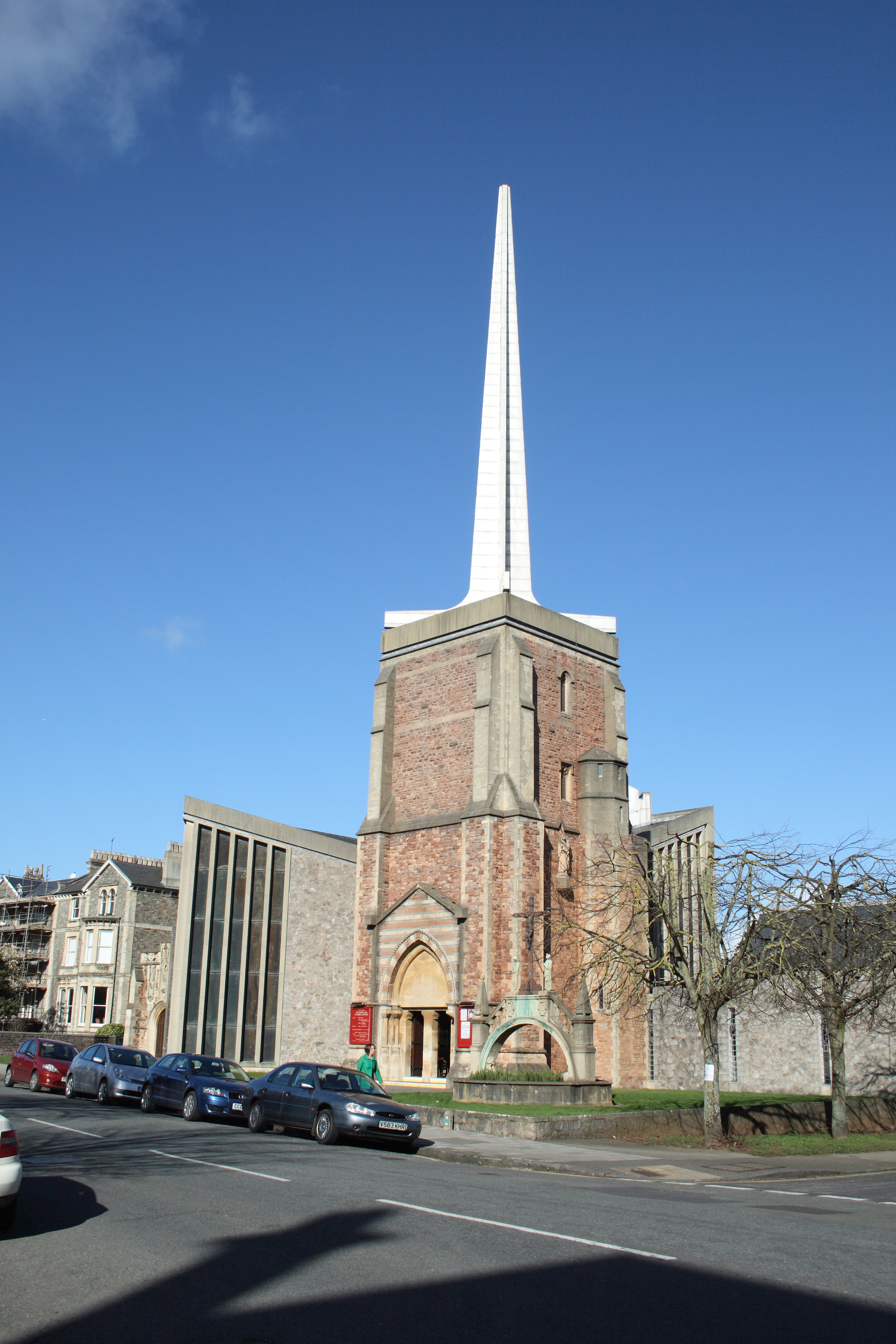 All Saints church in Clifton, Bristol. It's an utterly dull picture, but I love the building and its mix of old and new. As I remarked to Martin, I thought of All Saints and the Catholic Cathedral as "rocket churches" when I was a child. Well, it was the Saturn V era...